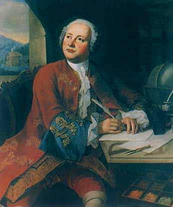 Life-time portrait of Mikhail Lomonosov (1711-1765)